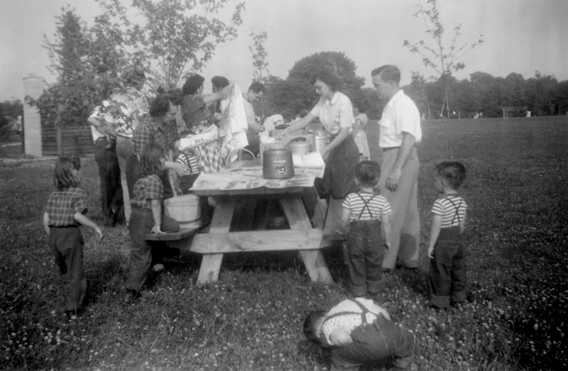 A picnic assembles in Columbus, Ohio.